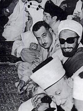 1955 Non-Aligned Movement Conference in Bandung Indonesia. Seated are Prince Faisal of Saudi Arabia (first from left), Gamal Abdel Nasser (third from left), Imam Ahmad of North Yemen (fourth from left) and Mohamad Amin al-Husayni (fifth from left)